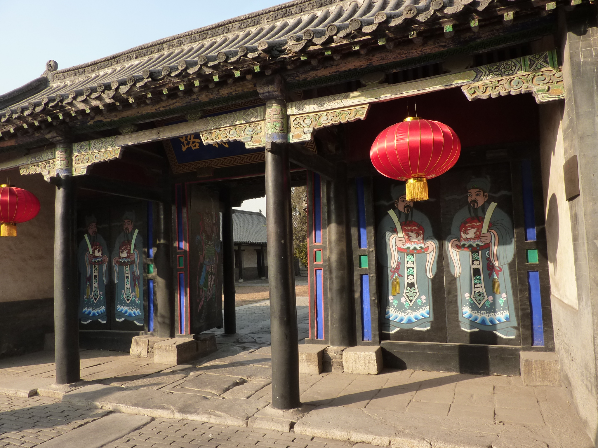 Gates of Politeness (Li Men) in the Mansion of Mencius complex, Zoucheng.